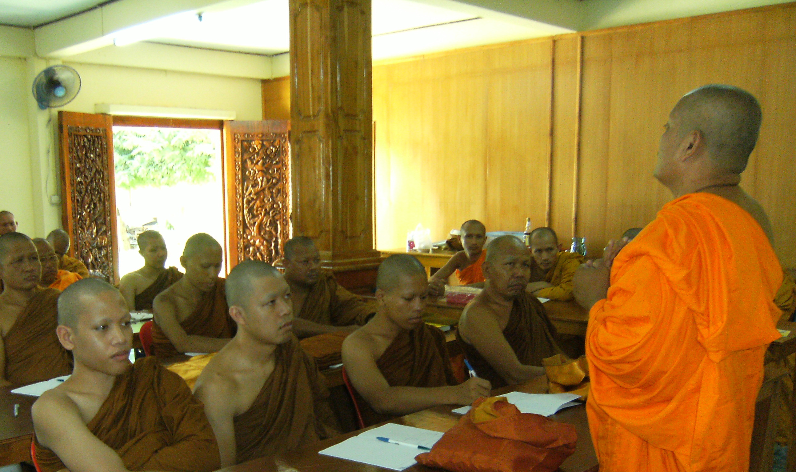 Buddhist monk student Location: Wat Pa Kanun Ban Pa Kanun, Khung Taphao subdistrict, Mueang Uttaradit, Uttaradit Province, Thailand.